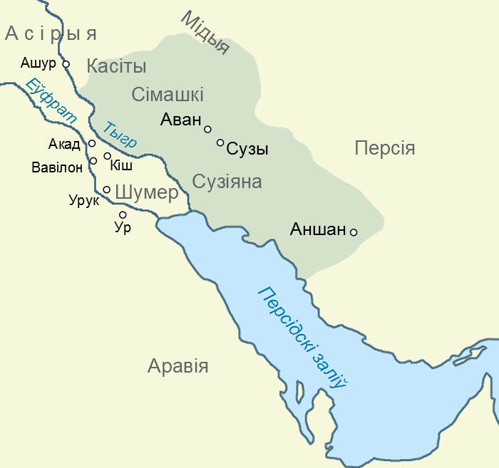 Map of Elam in Belarusian